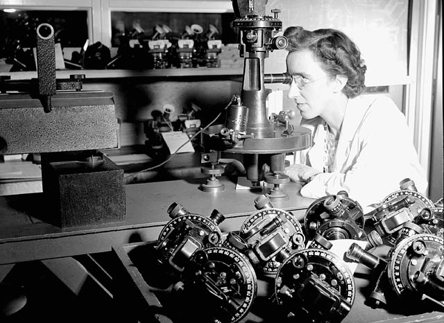 An employee of Research Enterprises Limited (REL) of Toronto tests gun sights for field artillery in the Summer of 1943.